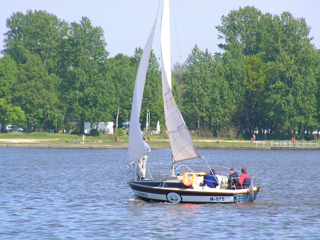 autor: Yarek shalom 08:37, 10 October 2006 (UTC)yarek shalom